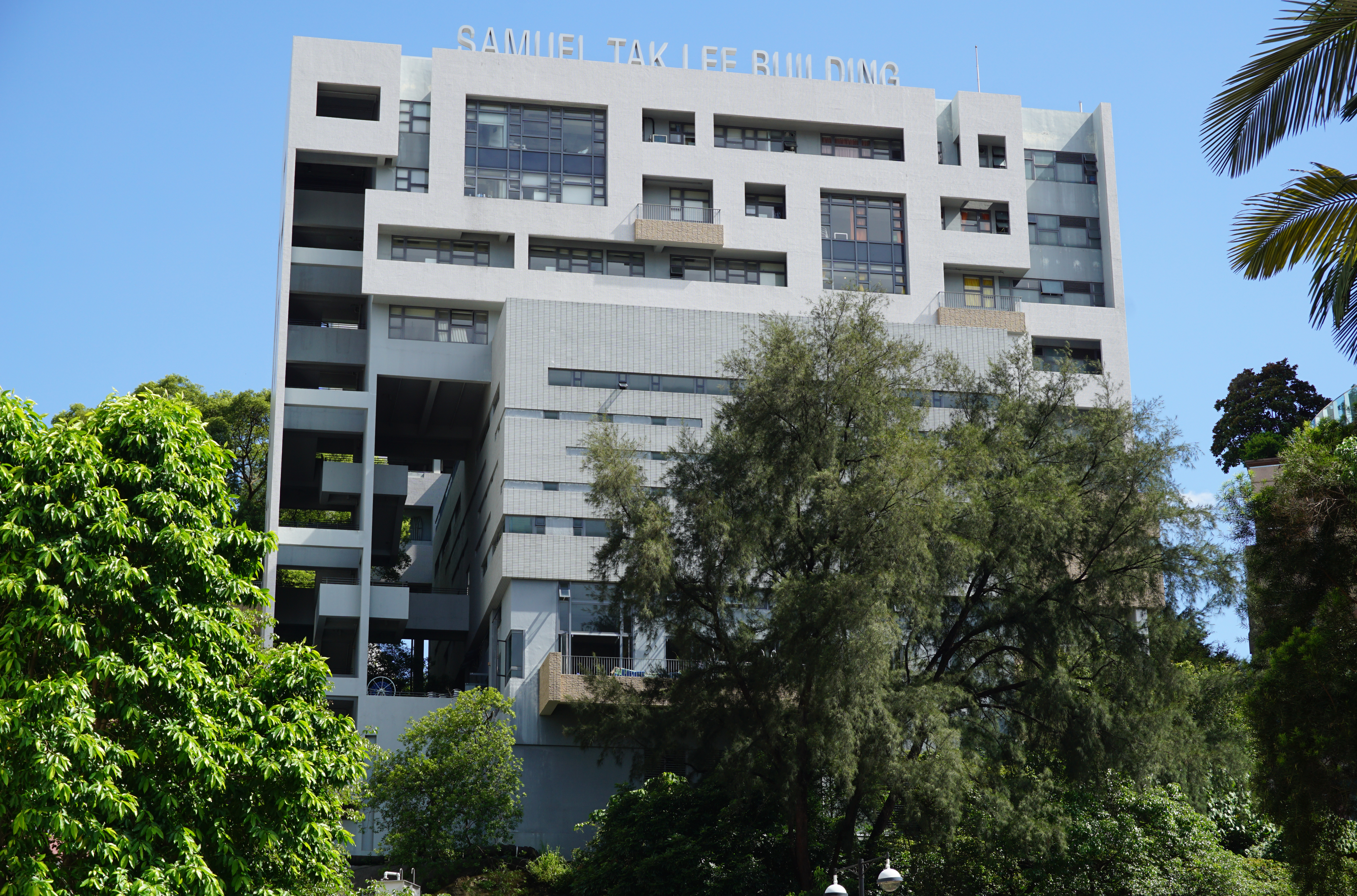 Samuel Tak Lee Building in Mong Kok, Hong Kong.